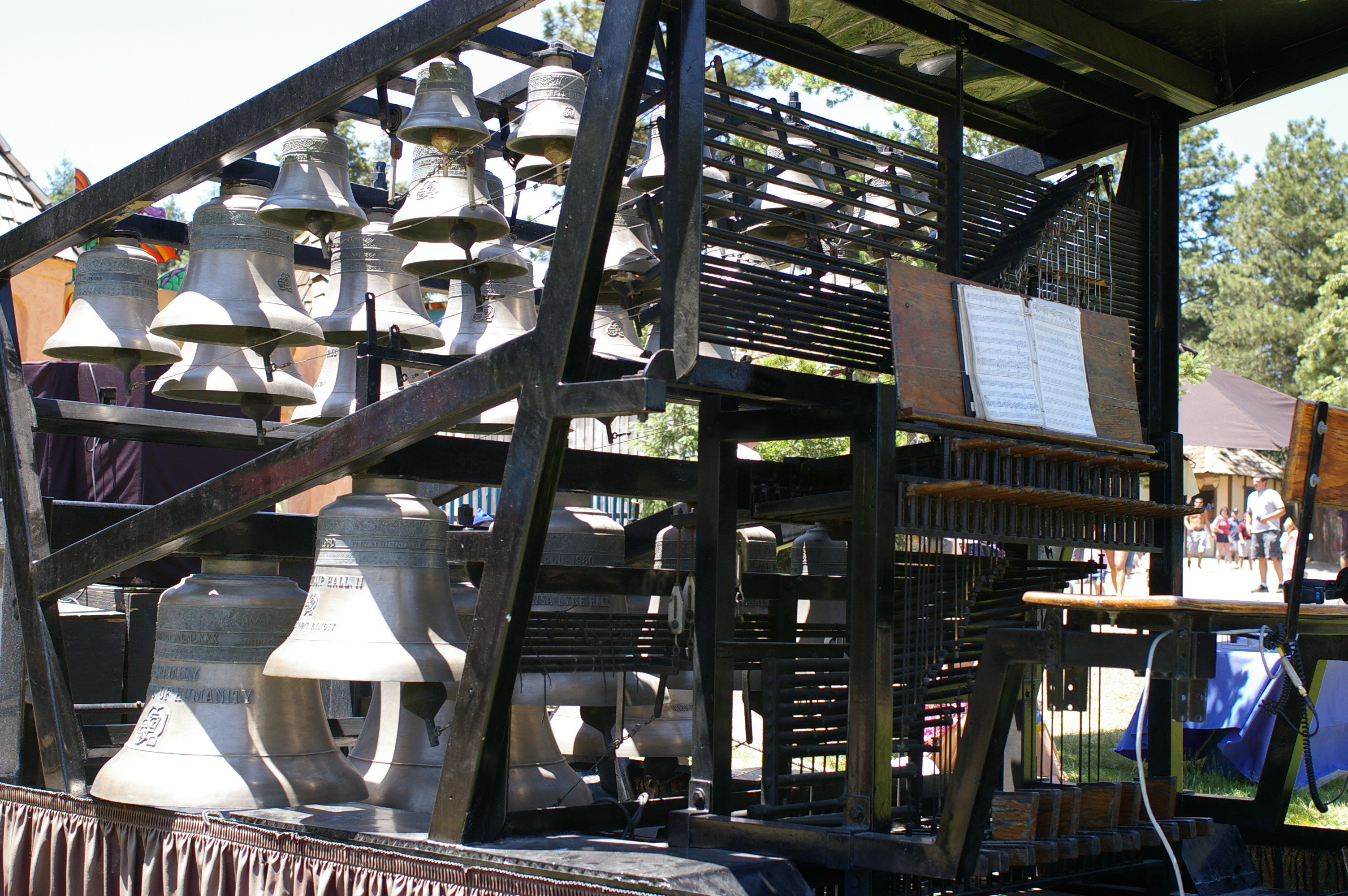 This is a small Carillon used by the group "Cast in Bronze", seen at the Colorado Rennissance Festival in 2008.